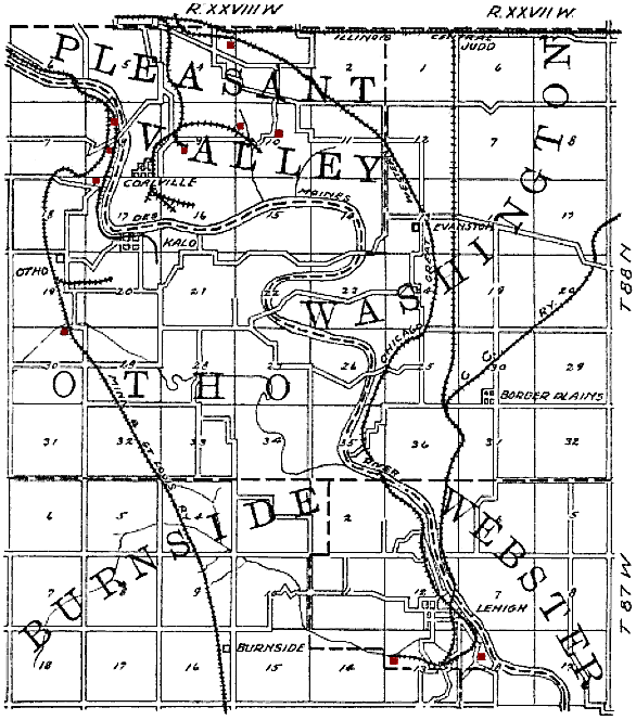 Original caption: "Figure 11. Map showing location of the principal mines in Webster county." Mines have been tinted red by the uploader. The towns shown are Coalville, Kalo, Border Plains and Lehigh, Iowa. The railroads shown on the map are: Minneapolis and St. Louis Railway, Chicago and Great Western Railroad, Illinois Central Railroad and the Crooked Creek Railroad and Coal Company.